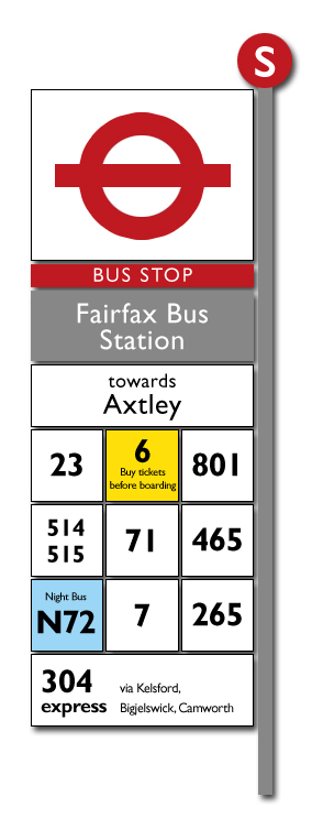 Bus Stop in London, new updated version, new colours, more appropriate typography